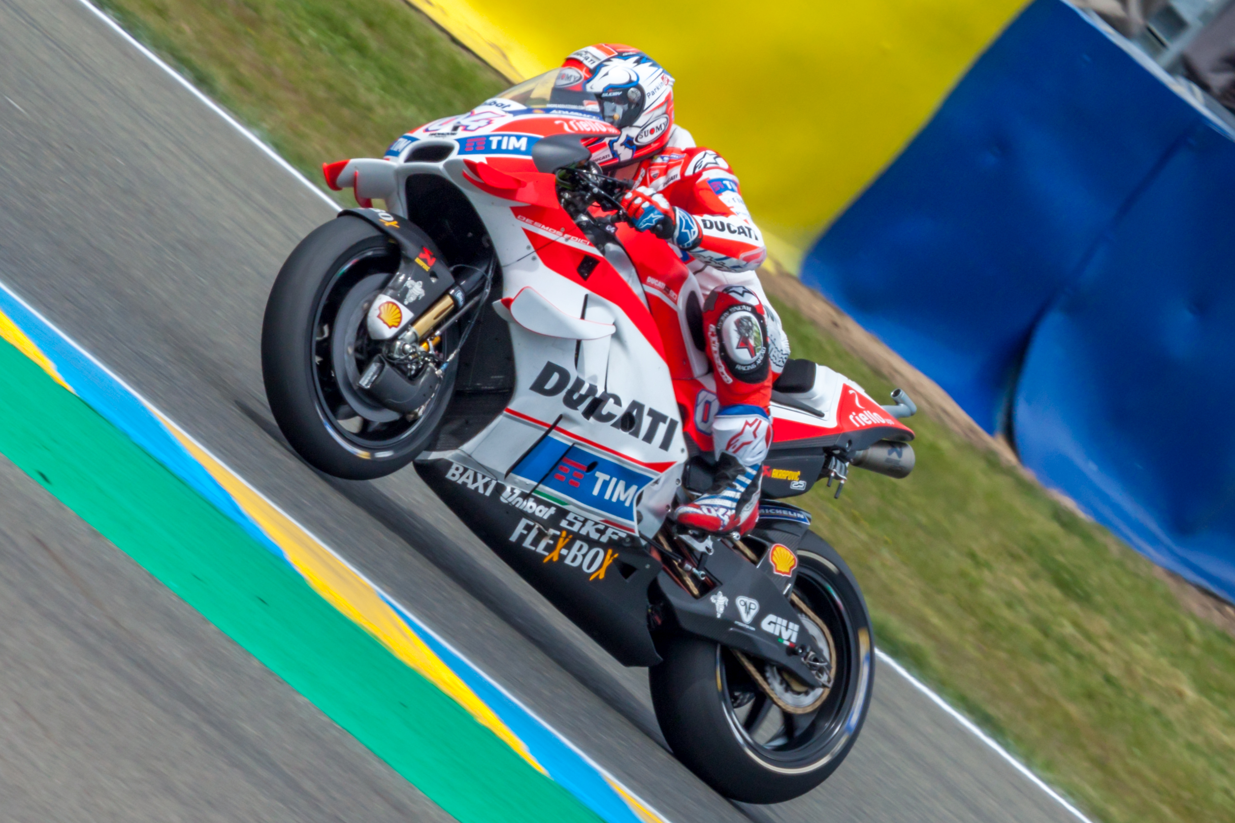 Andrea Dovizioso at Grand Prix of France, Mans 2016